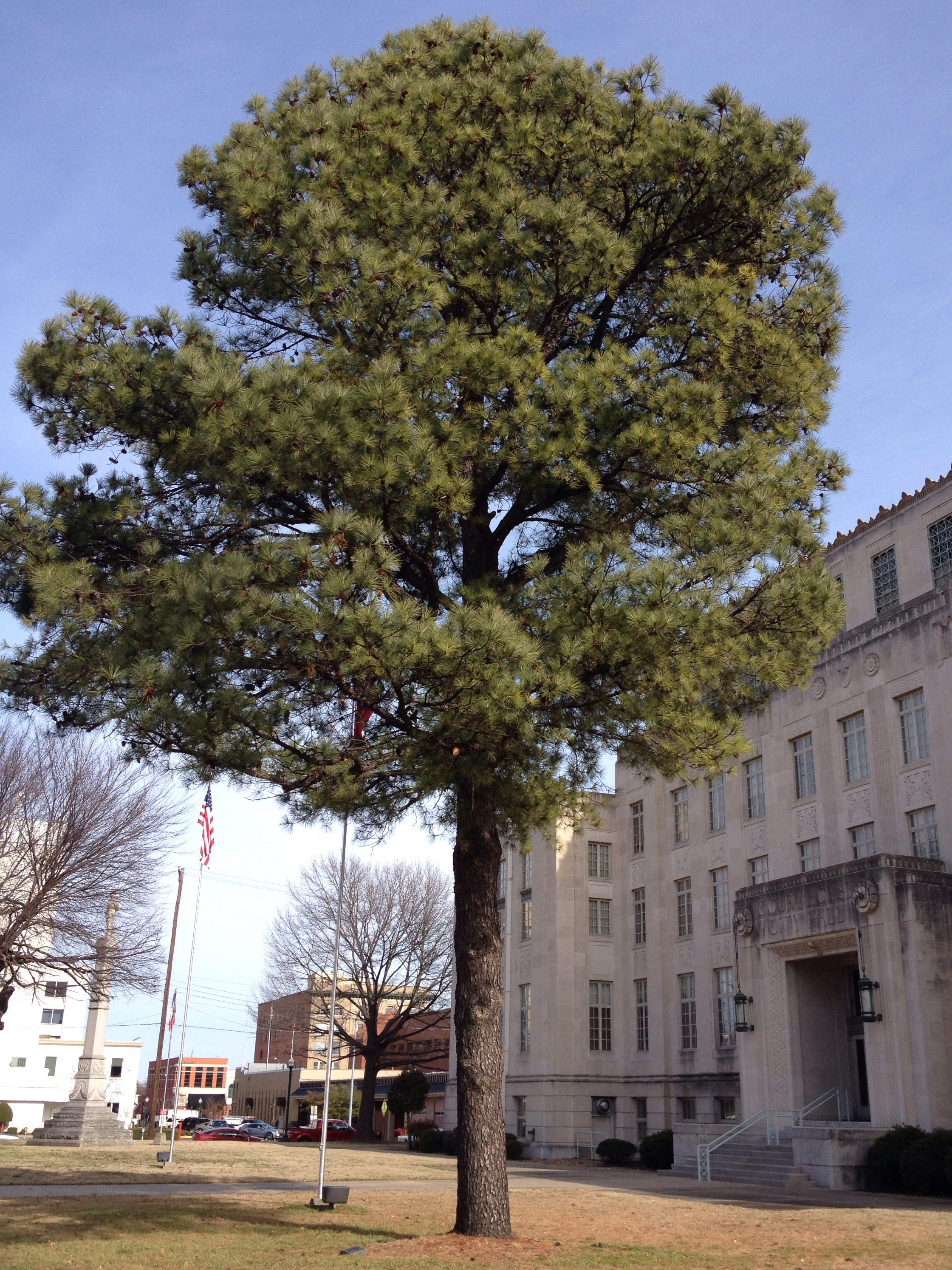 A photograph of the loblolly pine Moon Tree in front of the Sebastian County, Arkansas, courthouse.